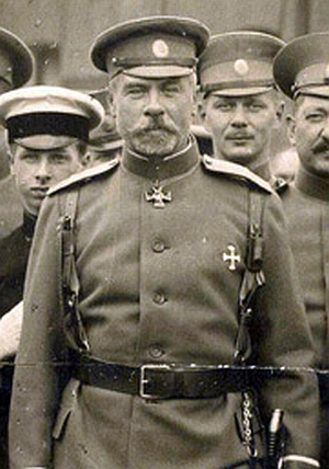 Etter fon, Ivan Sevastyanovich